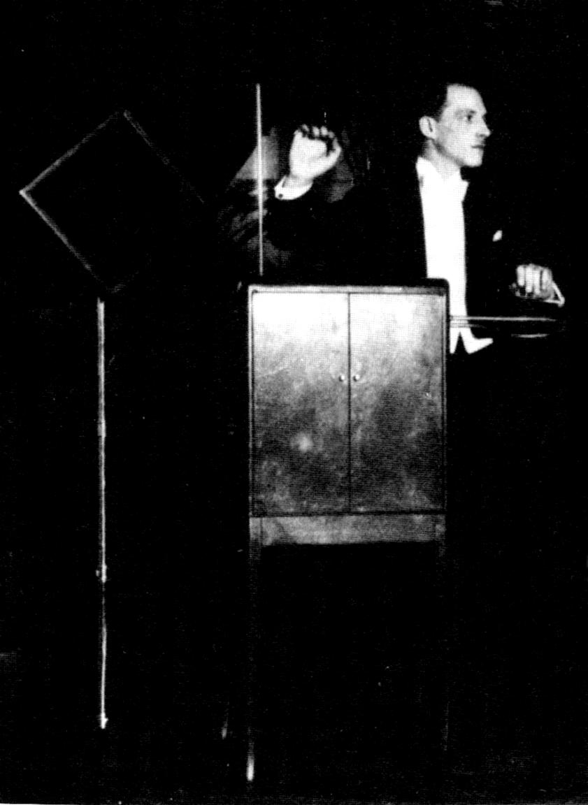 DETAIL of Leon Theremin performing a trio for theremin, voice and piano, c. 1924.